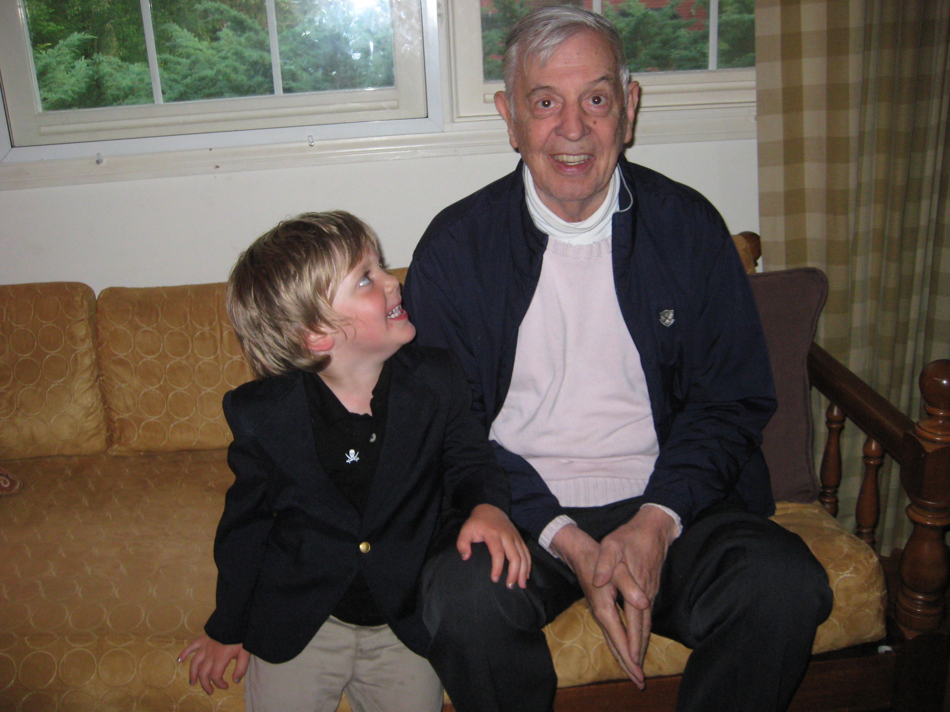 Gilman visiting with his grandson